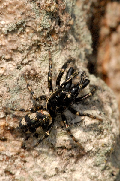 Salticus zebraneus from Commanster, Belgian High Ardennes .